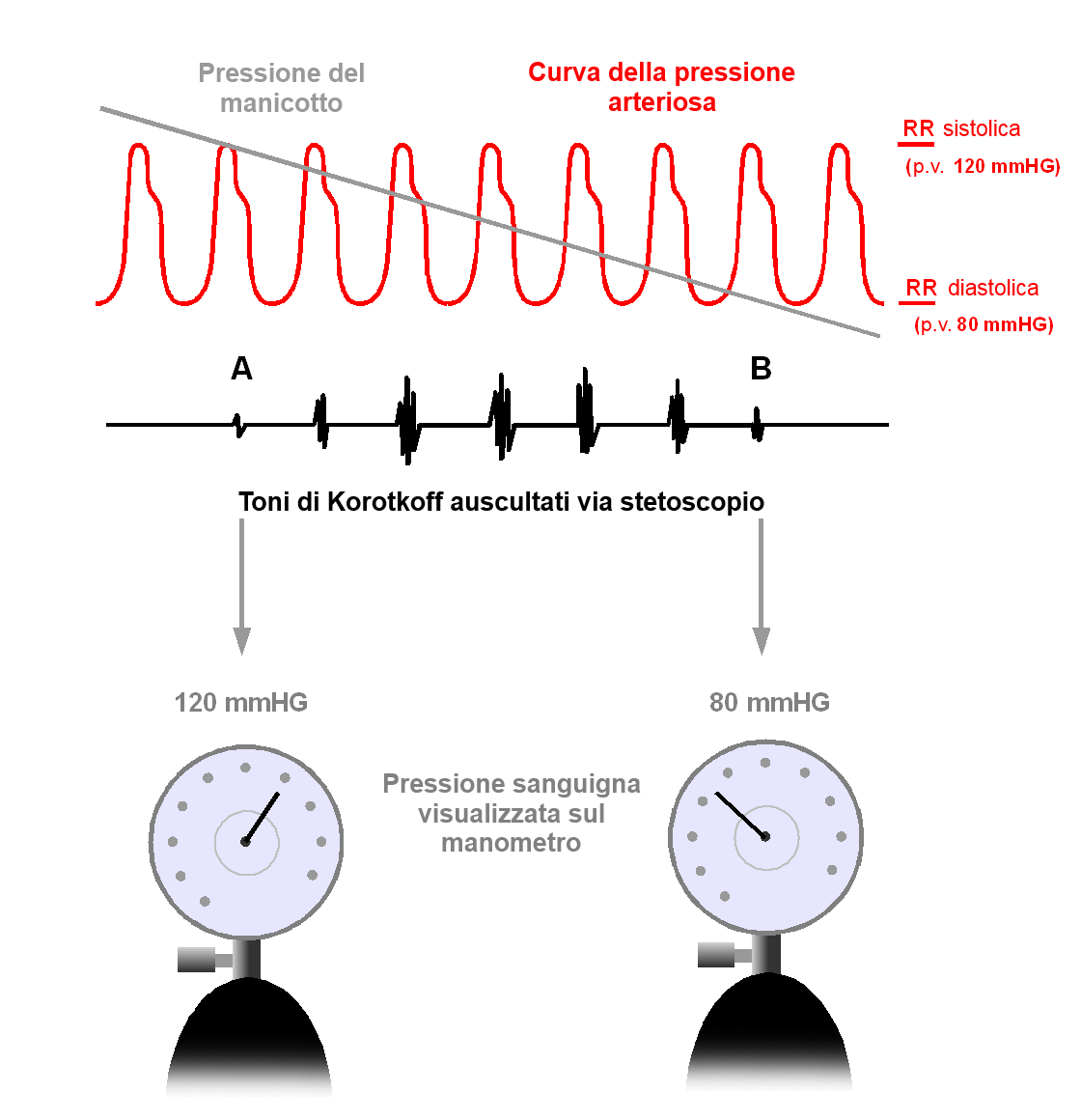 blood pressure measurement using the auscultatory method based on the (first) korotkoff-sound.